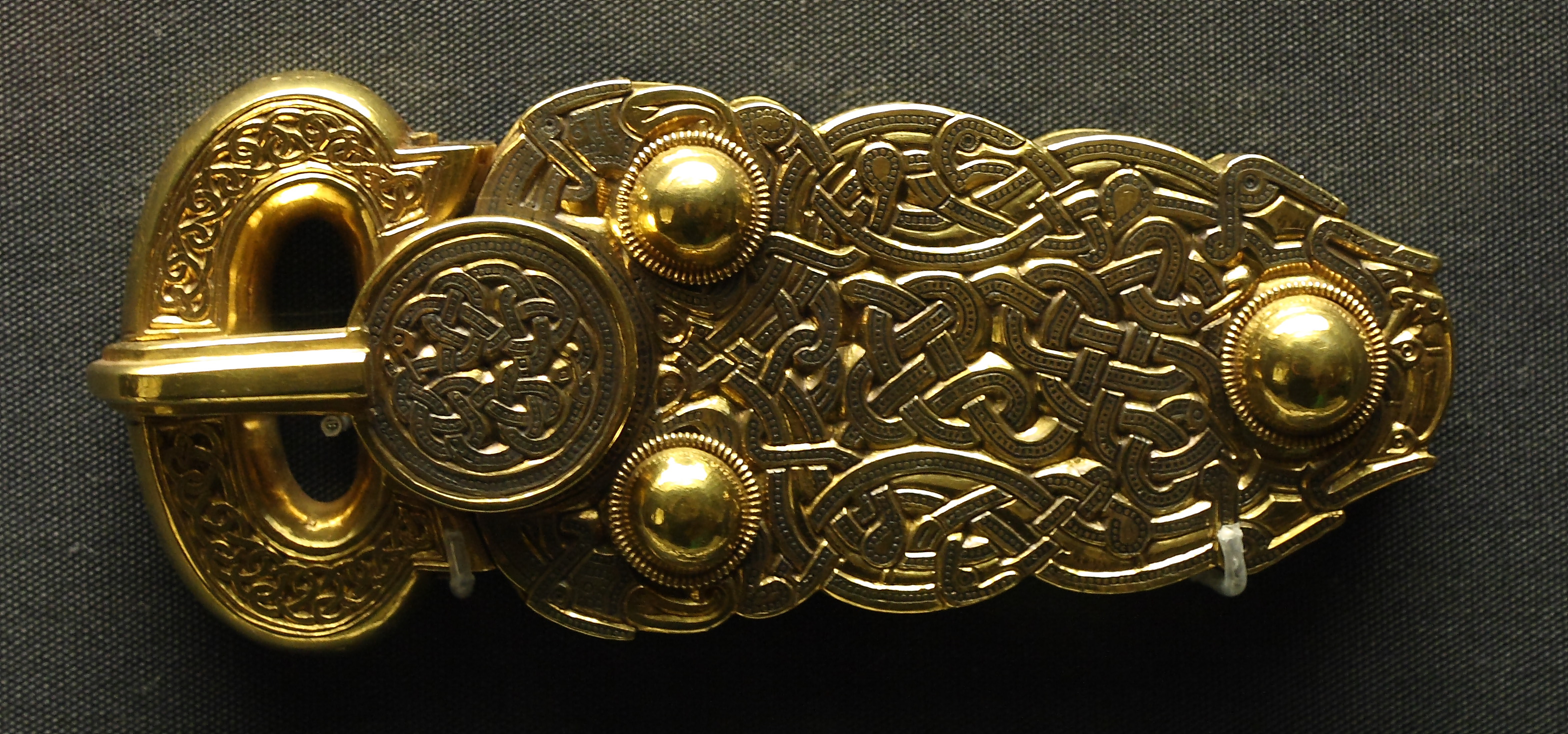 Made by uploader